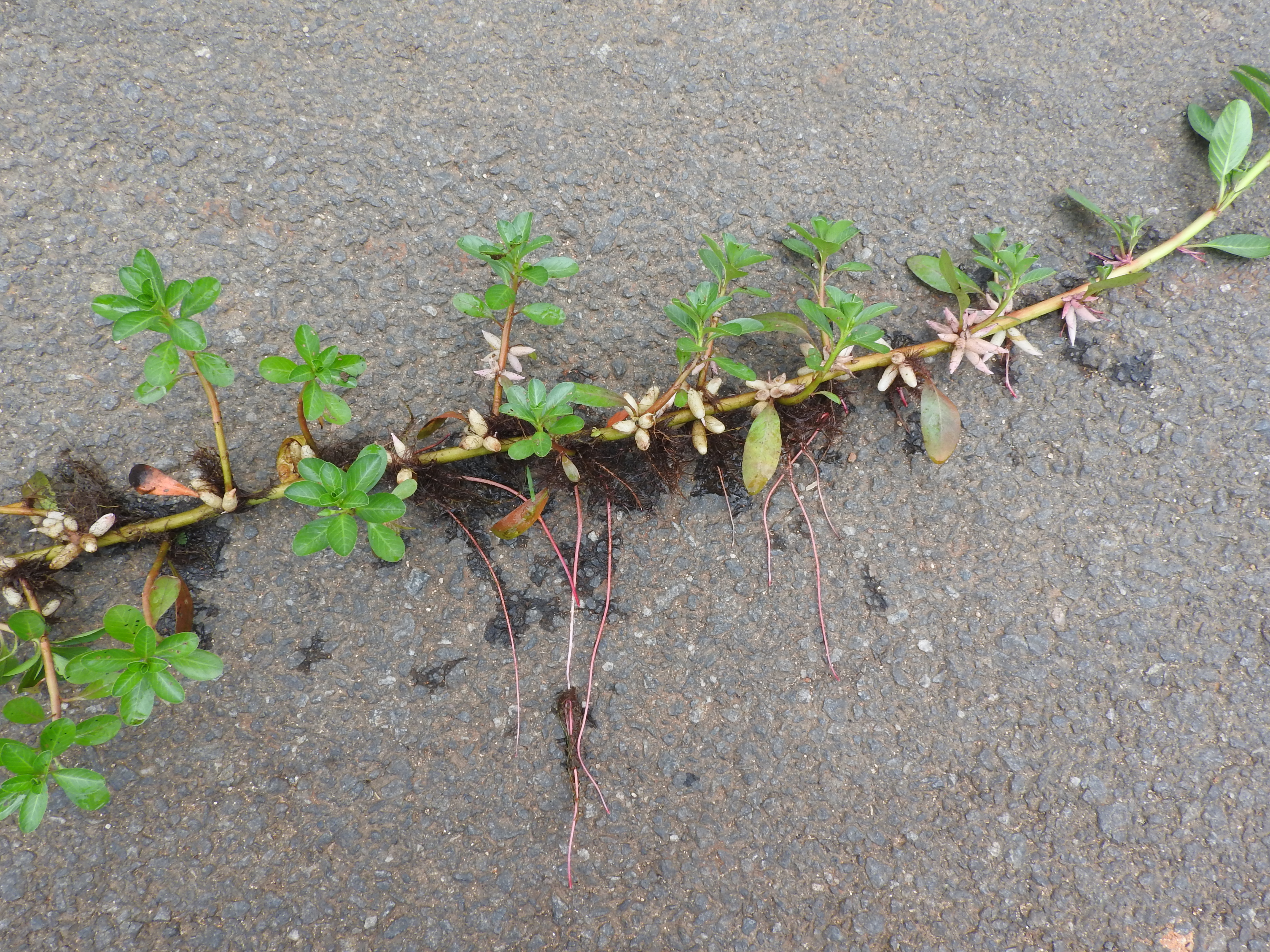 Onagraceae-water plant,root spongy,flowers white,middle yellow.